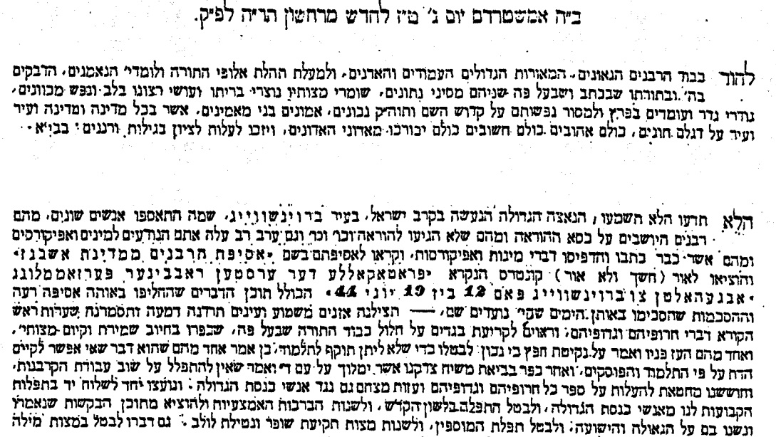 A pamphlet denouncing the first Reform Rabbinical Conference.